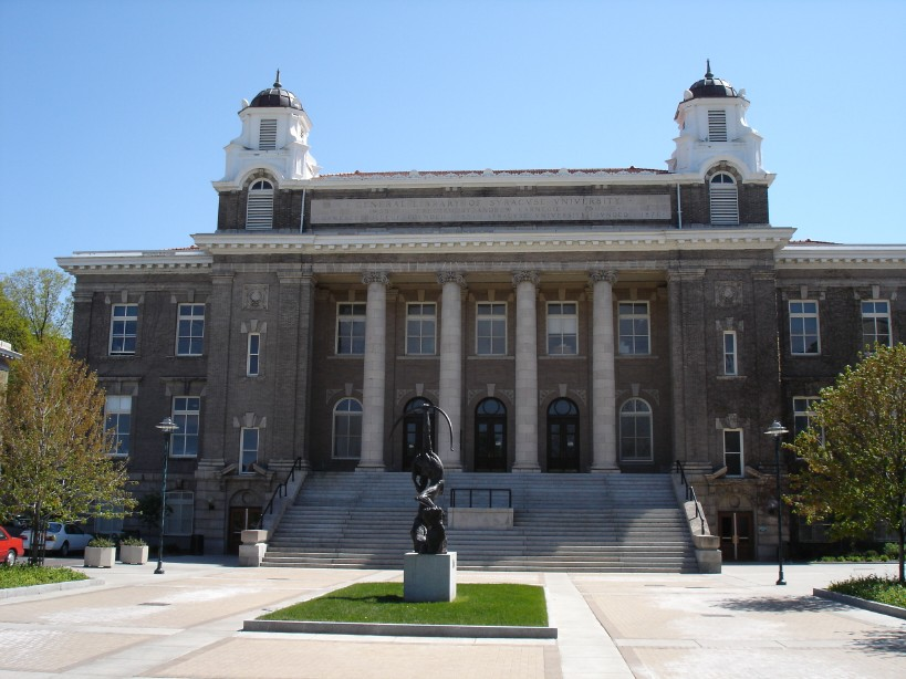 Syracuse University's Carnegie Library. Taken by me. newkai 23:09, 7 Jun 2005 (UTC)